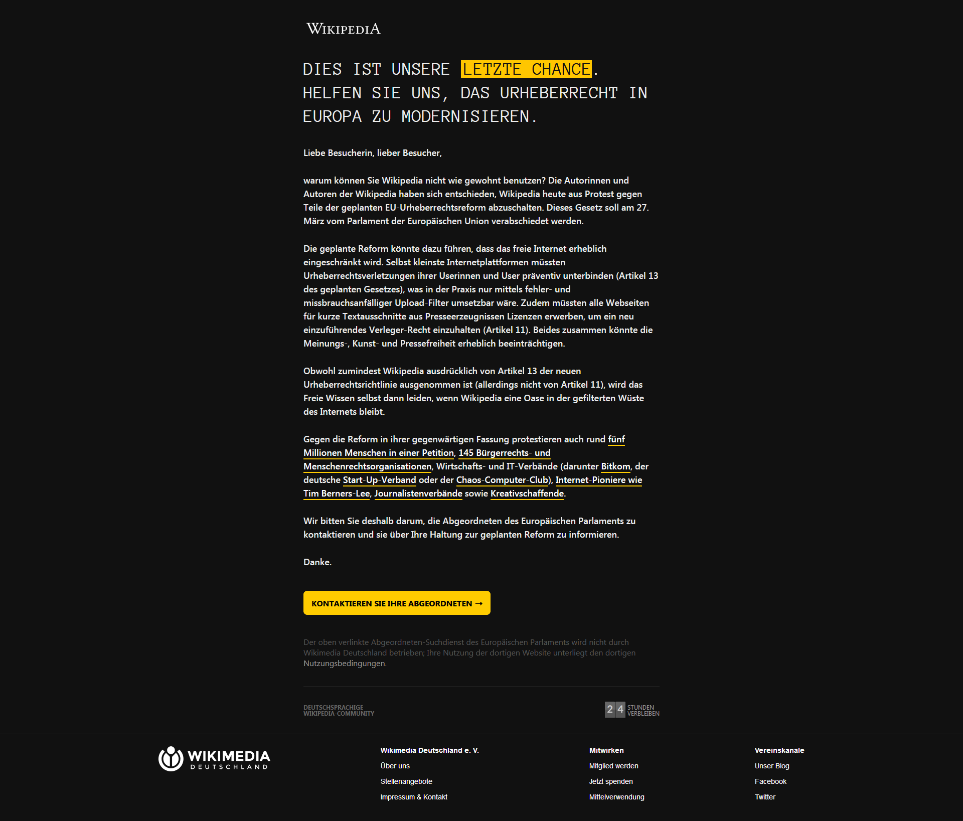 This is a screenshot of the community-led blackout of . This version of the blackout notice was shown on wikipedia.de, a website owned by Wikimedia Deutschland, for one day on March 21, 2019.